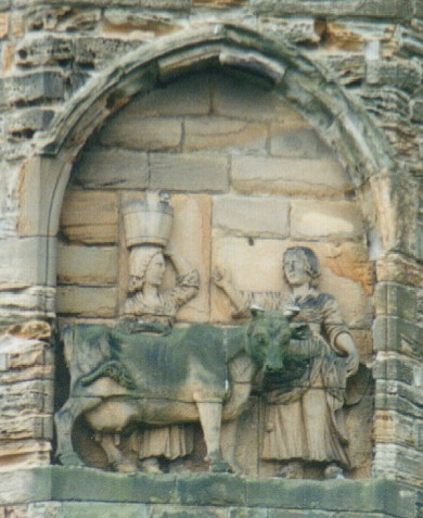 Depiction of the dun cow that helped in the founding of Durham. (Much more information about this legend available in British Museum file showing a copy of this artwork: Dun-Cow--Durham-Cathedral-British-Museum.png)